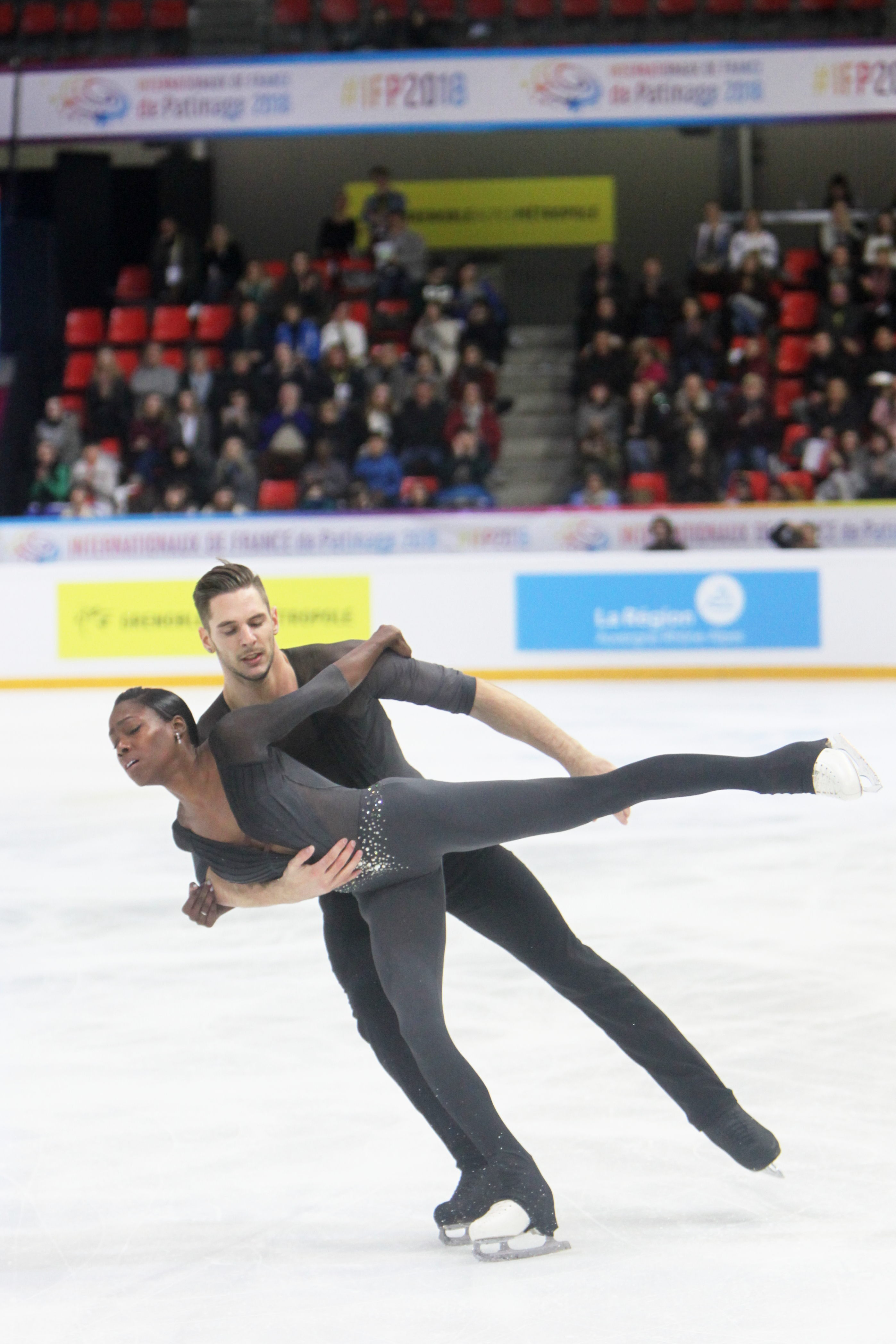 Vanessa James and Morgan Ciprès during the Pairs Free Skating at the Internationaux de France de Patinage 2018.